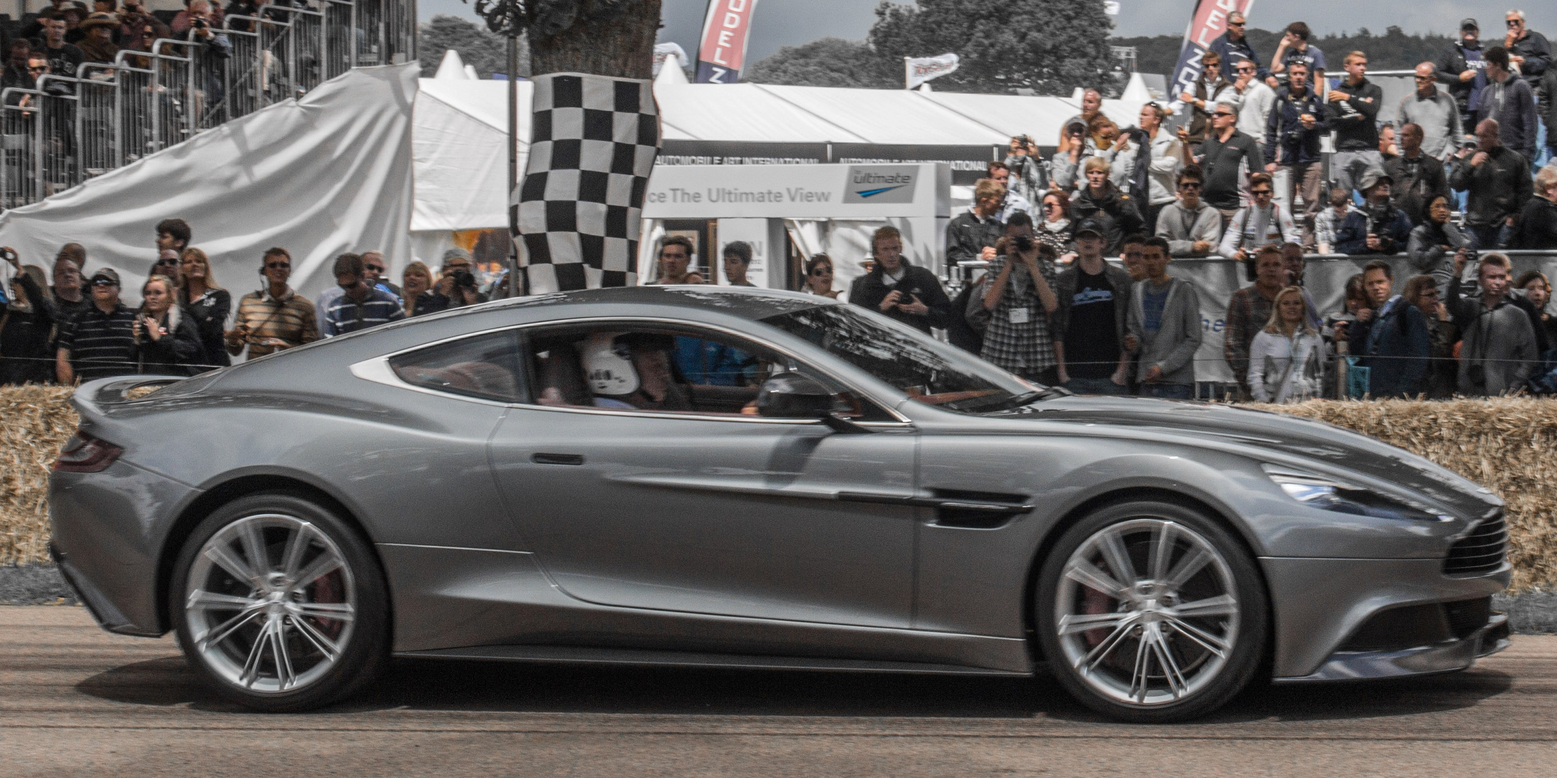 Aston Martin Vanquish